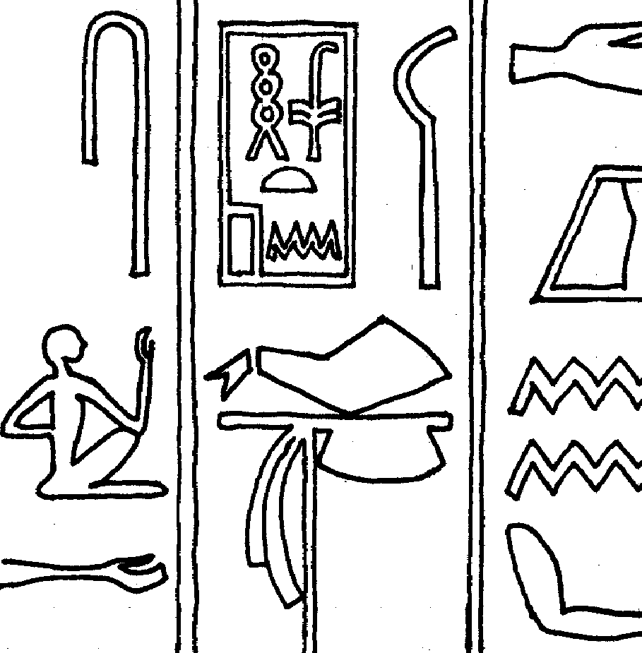 Inscription from mastaba L6 at Saqqara, attributed to the offical Metjen and dating to the end of the 3rd Dynasty.. The inscription readsHw.t-njswt.-hw („Hut-nisut-hu“), the name of a royal domain of Huni